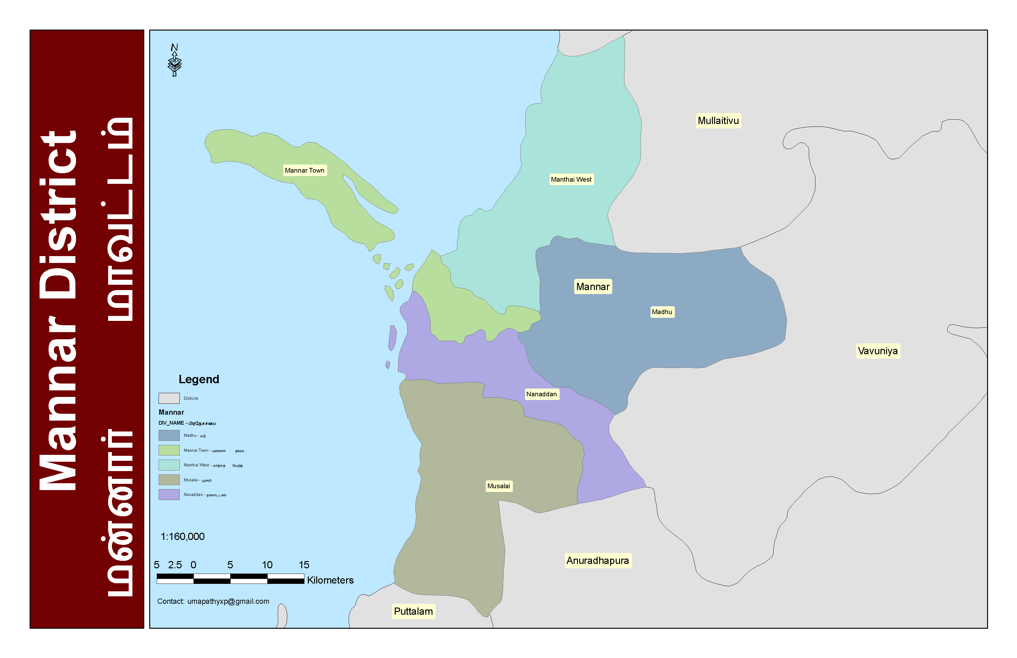 This is a picture of Mannar District, Sri Lanka